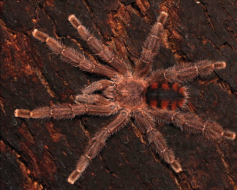 Avicularia minatrix male